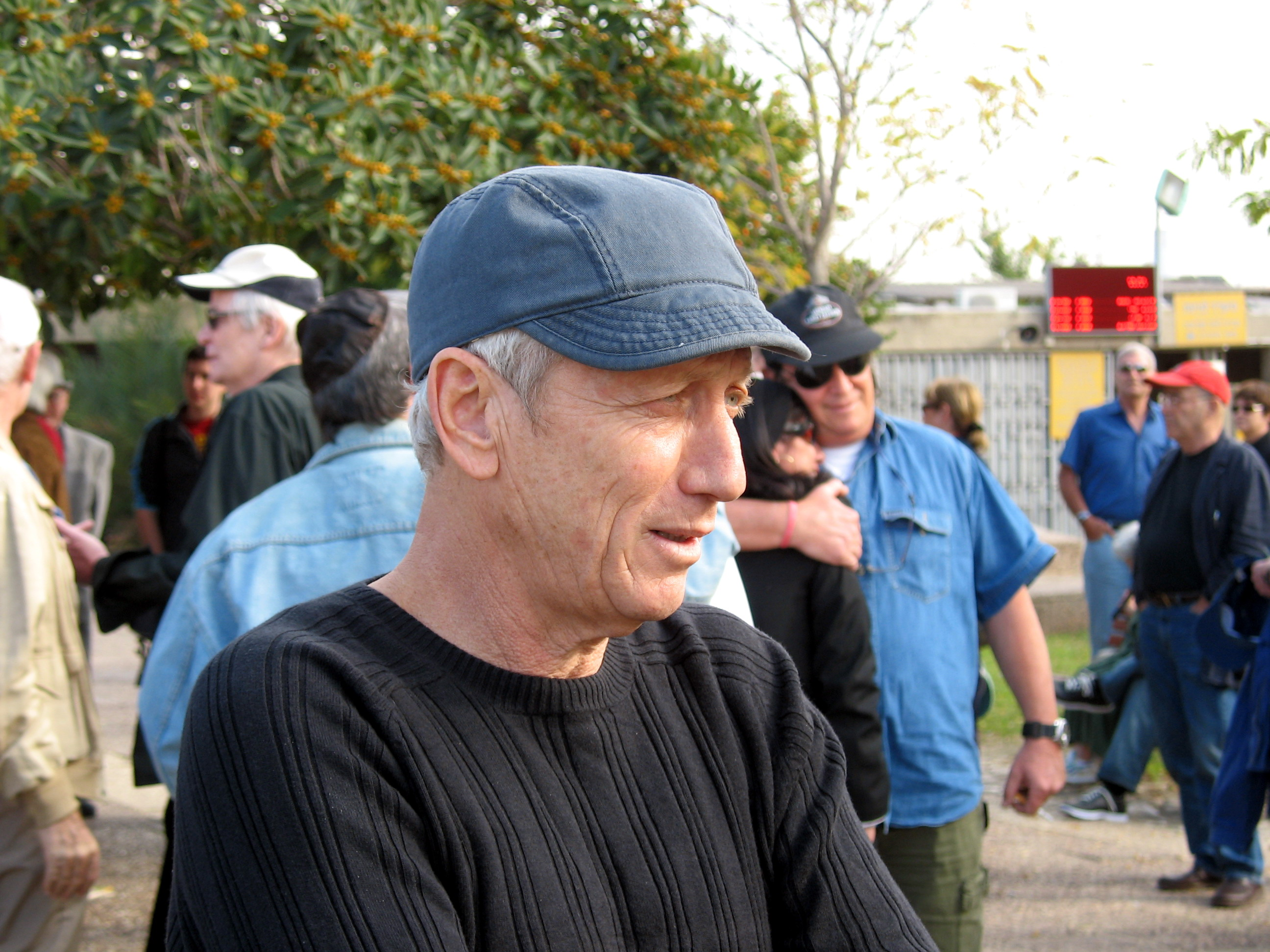 Moni Moshonov, an Israeli actor and comedian, at the funeral of Eli Mohar, 2006